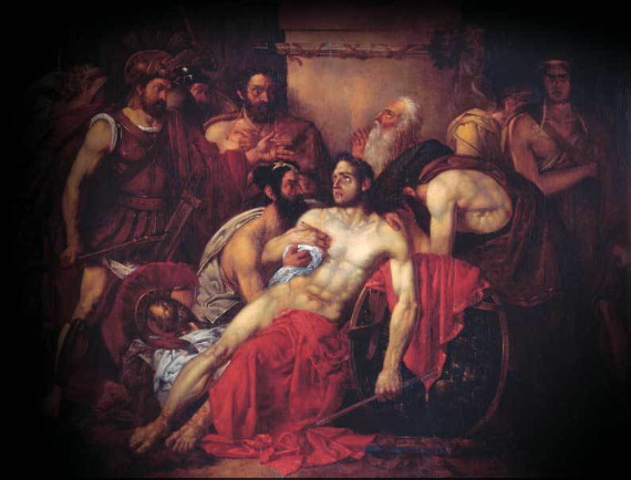 Louis Gallait: The Death of Epaminondas